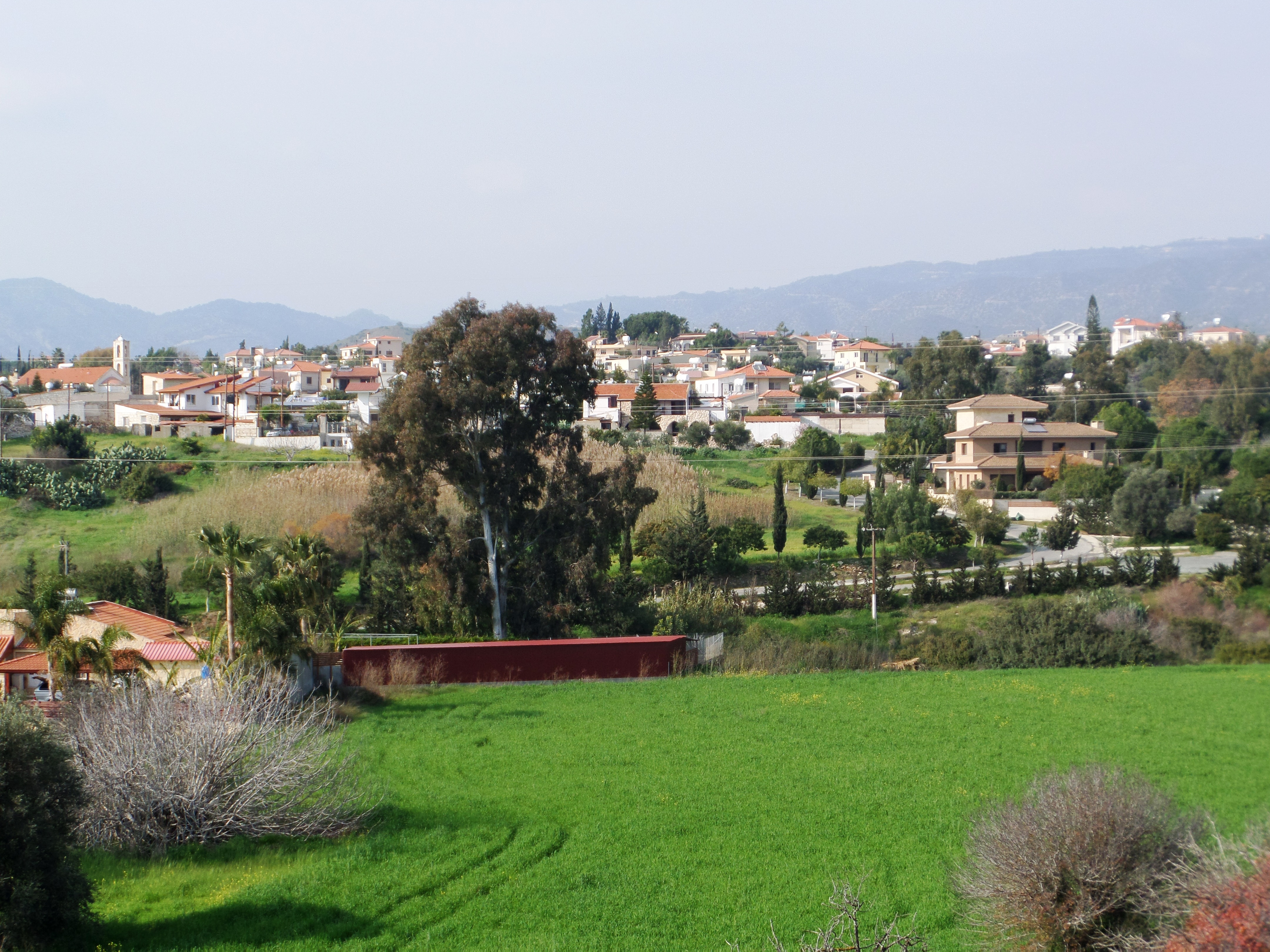 View of Moni, Cyprus.